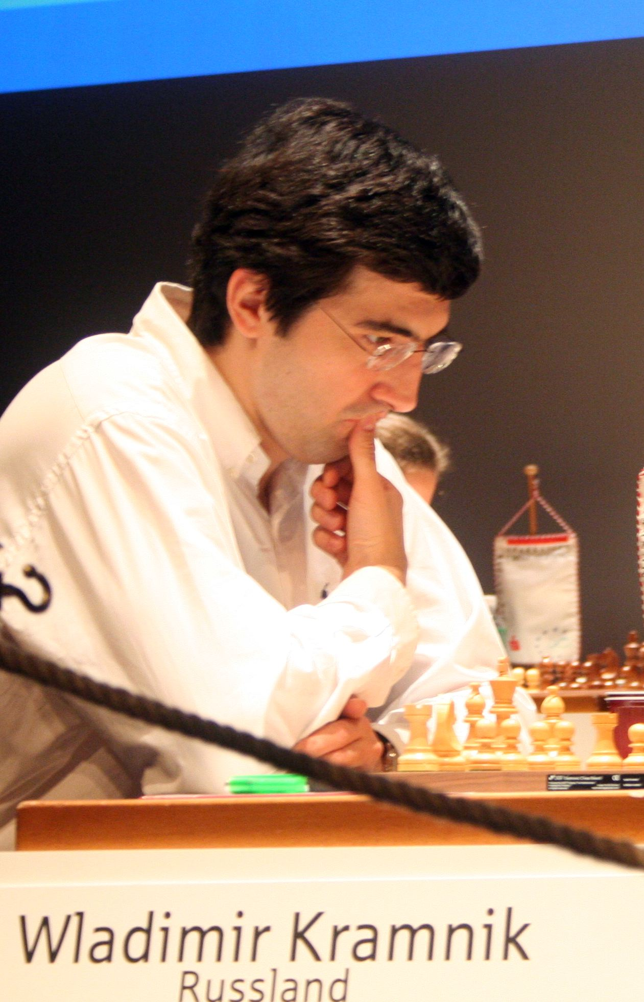 Vladimir Kramnik – Russian grandmaster.